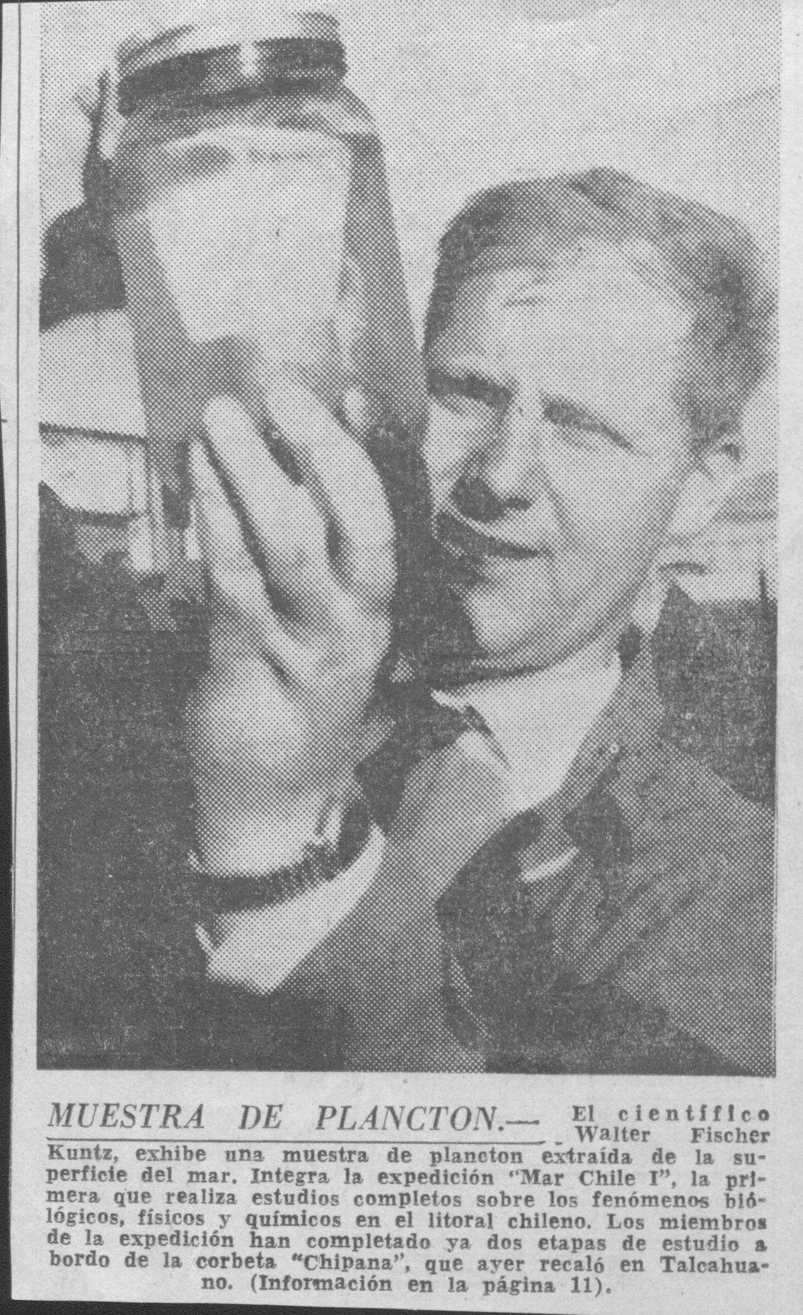 Dr. Walter Fischer on board a fishery research vessel (about 1955)